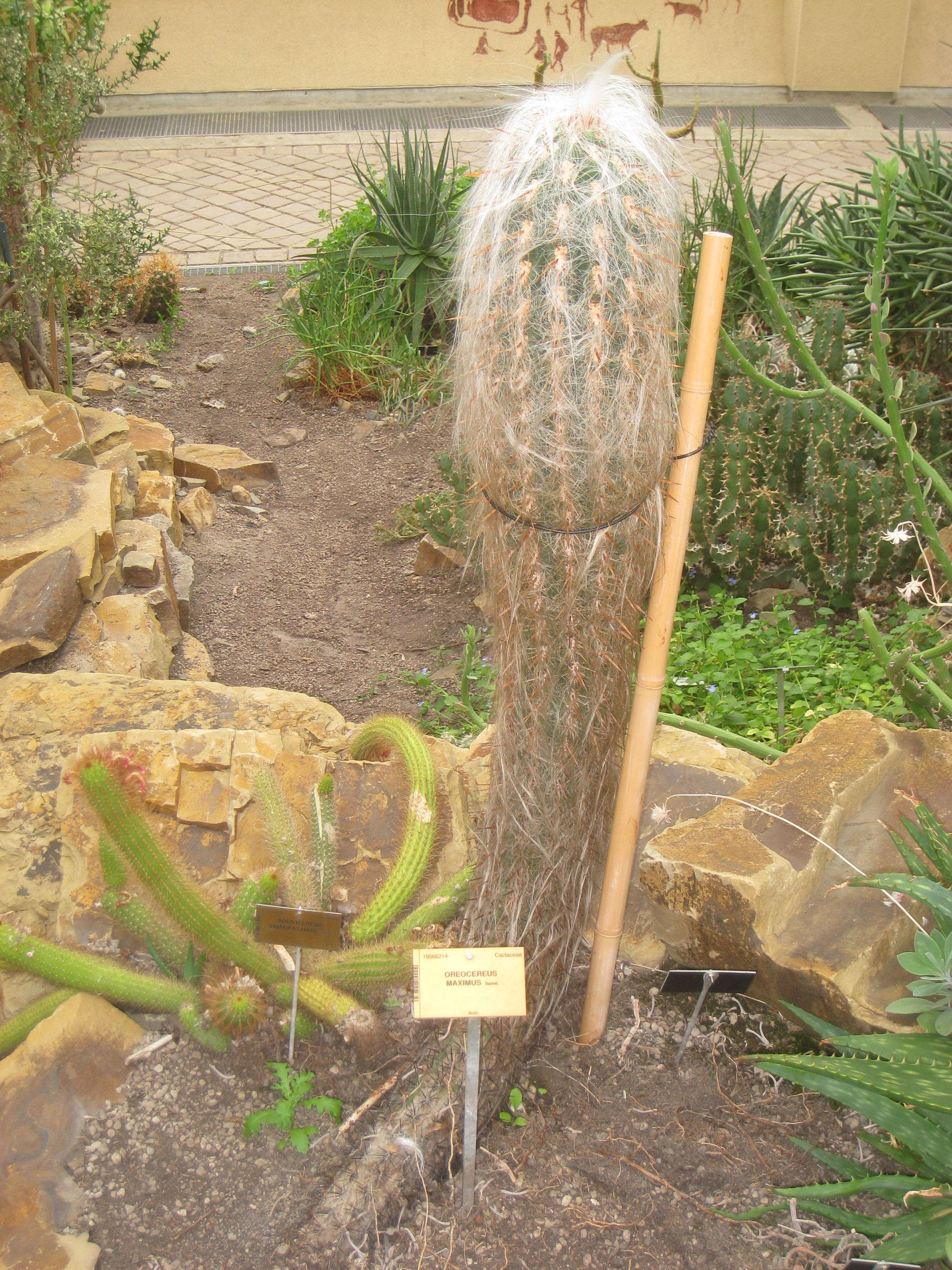 Oreocereus celsianus specimen in the National Botanic Garden of Belgium, Meise, just north of Brussels, Belgium.